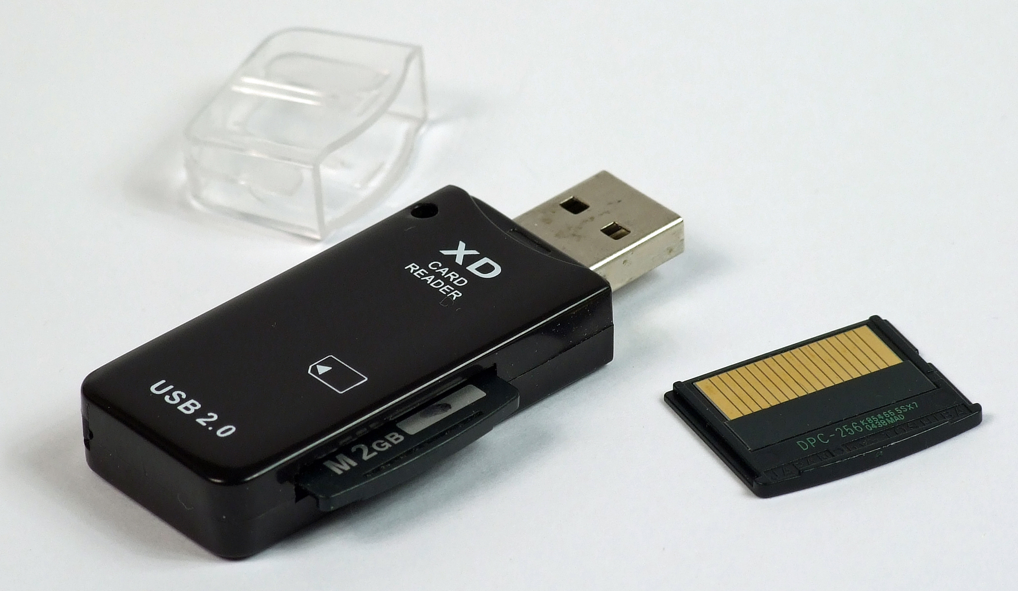 XD-Card to USB adapter with XD-memmory cards.